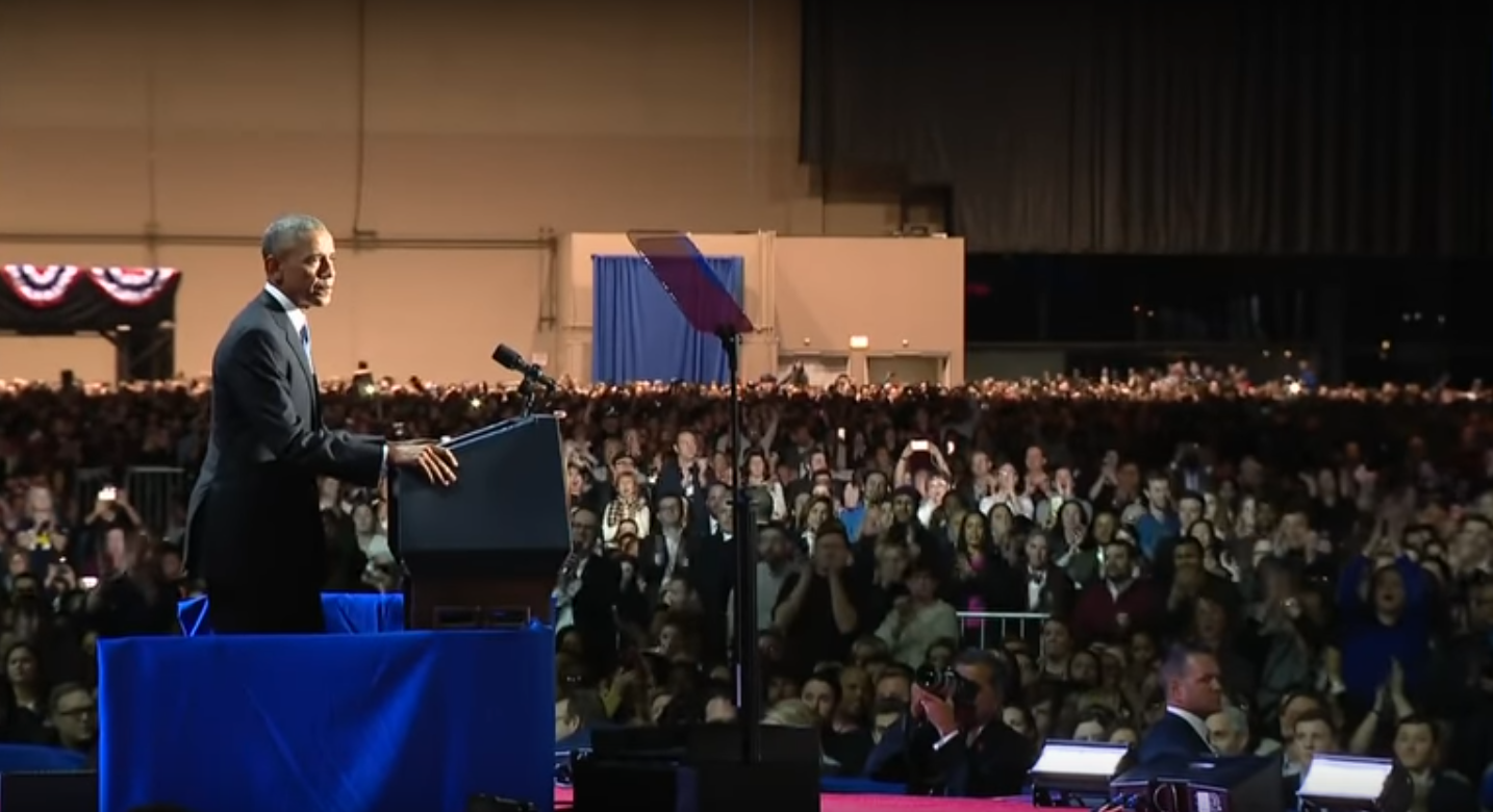 President Barack Obama delivers his farewell address to the nation before a large audience at McCormick Place in Chicago